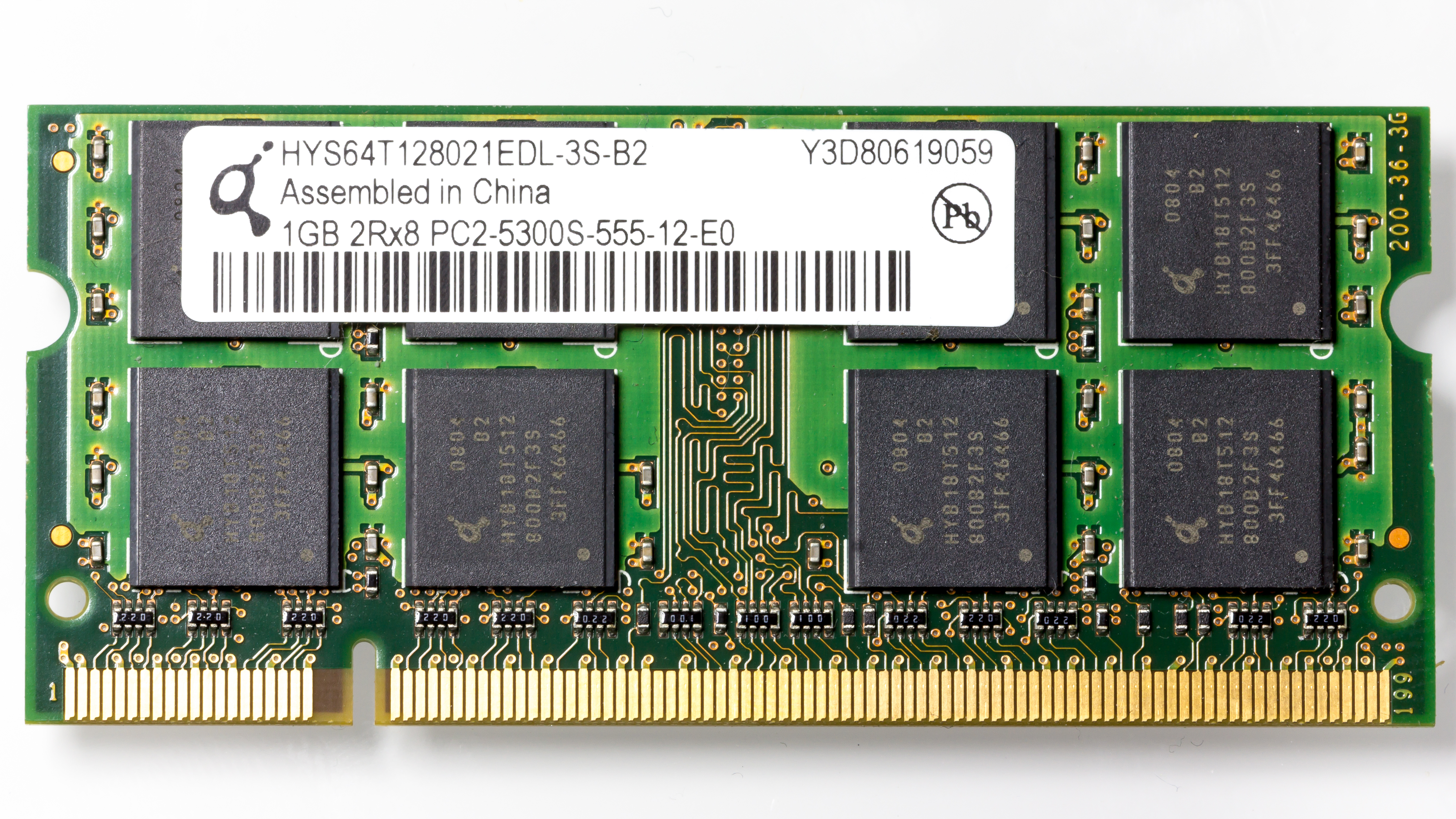 Qimonda HYS64T128021EDL-3S-B2 DDR2 RAM